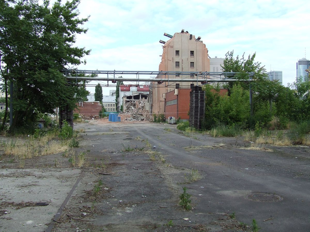 Haberbusch and Schiele brewery in Warsaw, 2008 (Haberbusch i Schiele